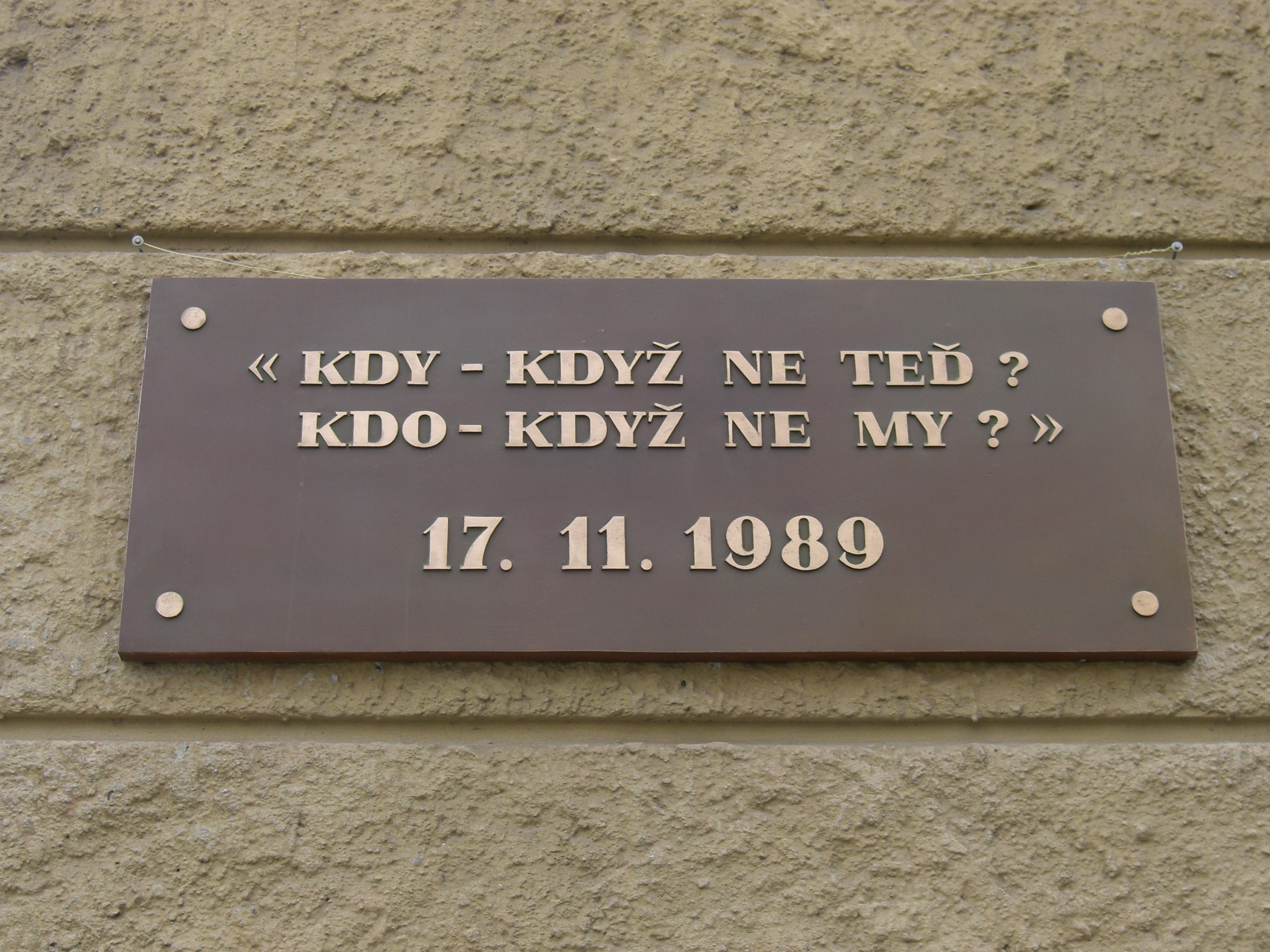 Memorial plaque on Albertov, the place where Velvet revolution started. Translation: when – if not now? who – if not us?